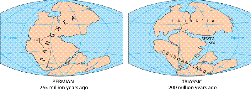 Triassic Continental Positions